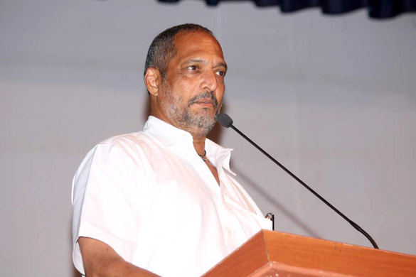 Nana Patekar snapped at the press meet for movie on Baba Amte